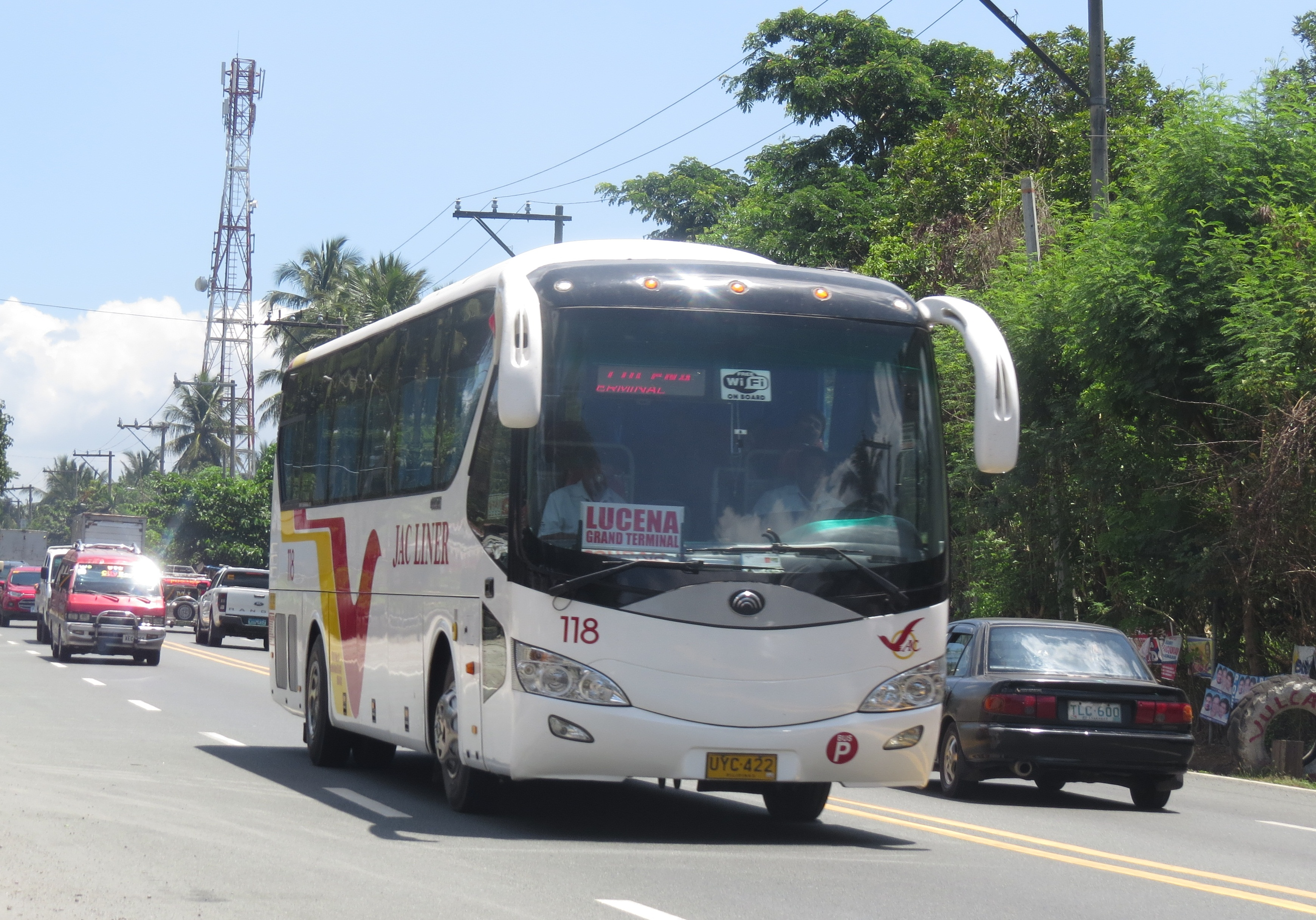 JAC Liner Inc - Type 6119 bus fleet (Yutong ZK6119HA)